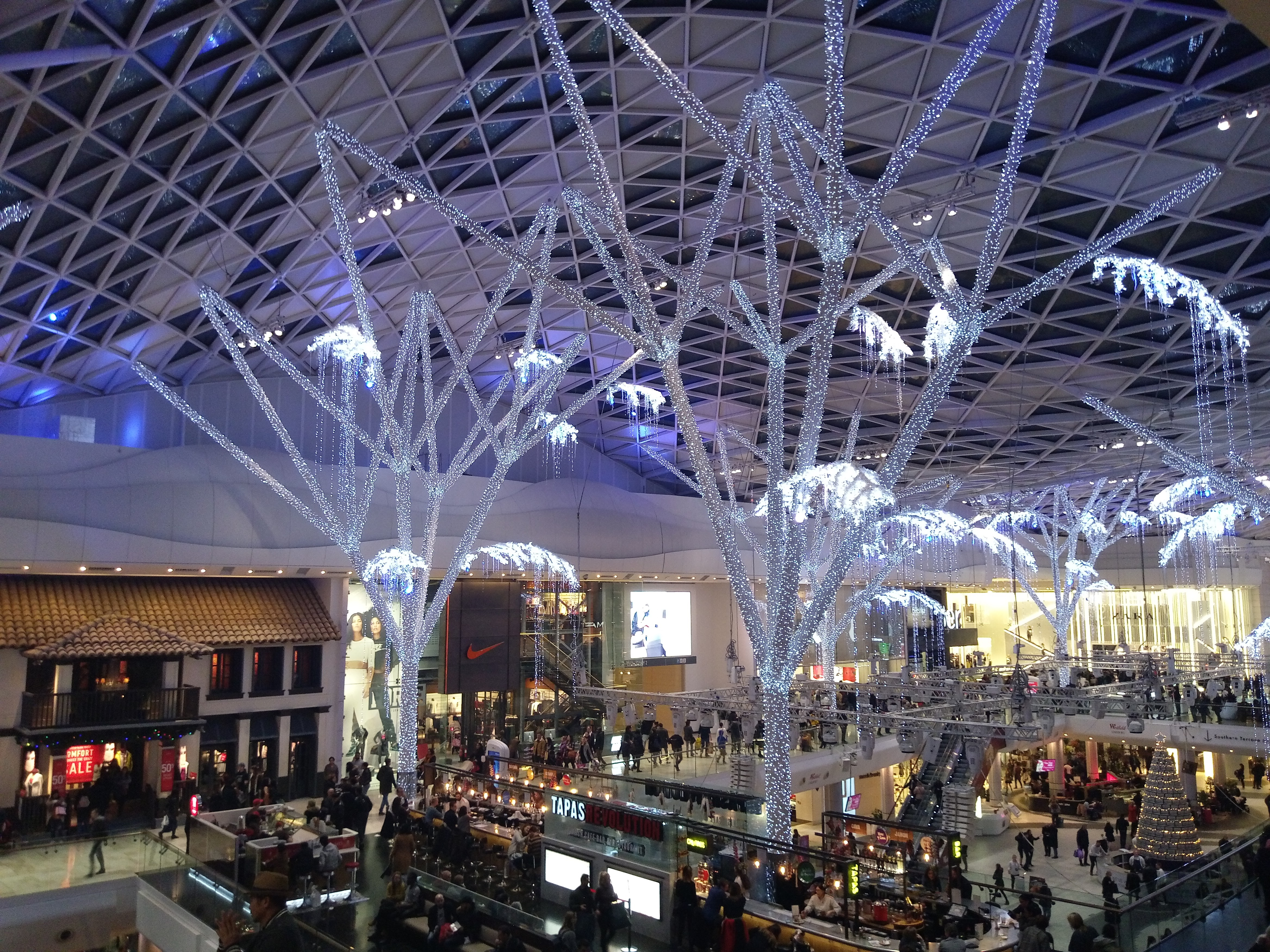 Christmas decorations in Westfield shopping center, Shepherd's Bush, London, England.